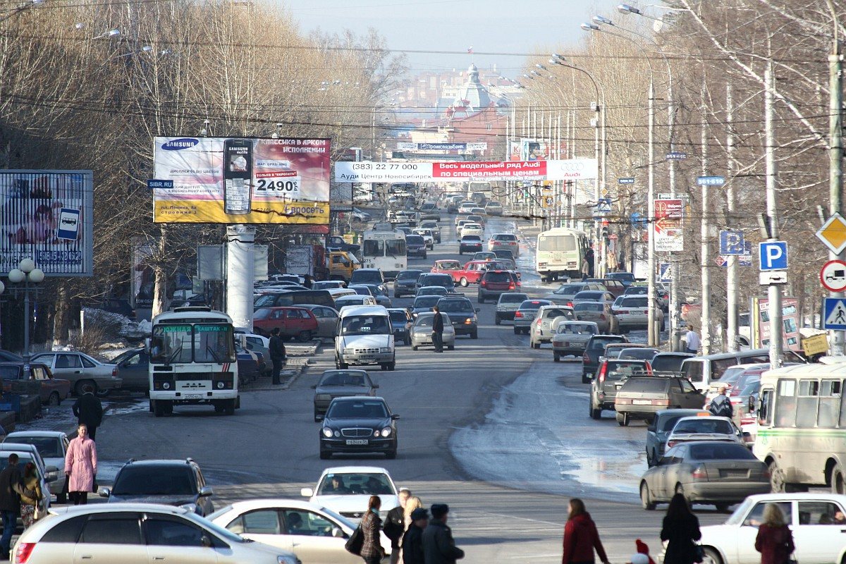 Lenin Avenue